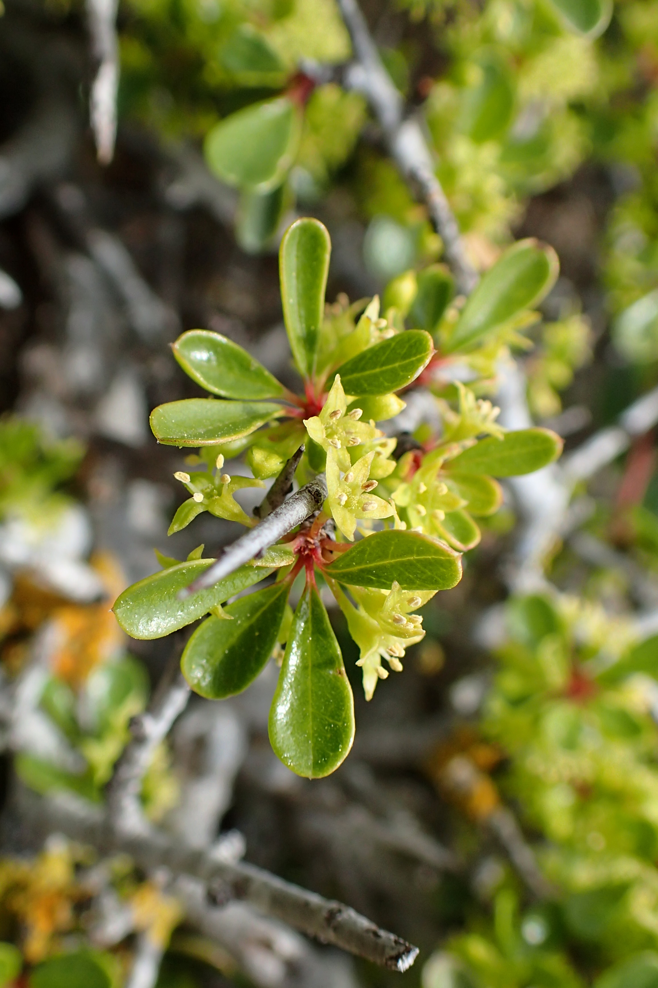 Rhamnus lycioides subsp. graeca in Smigies on Akamas Peninsula, Cyprus